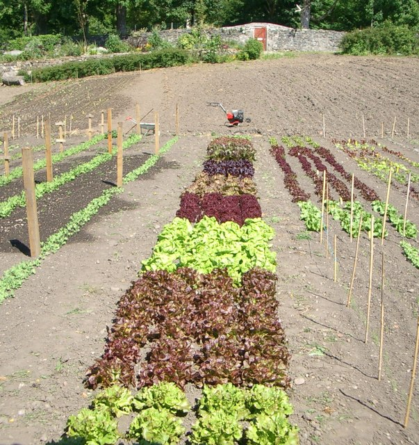 Lettuces with Rotovator Salad crops in this superb community garden.